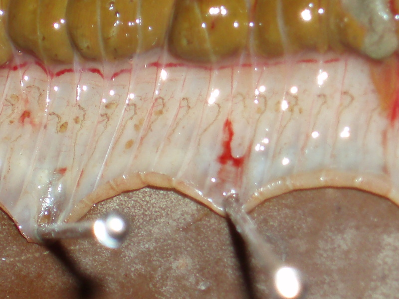 metanefridie Lumbricus terrestris